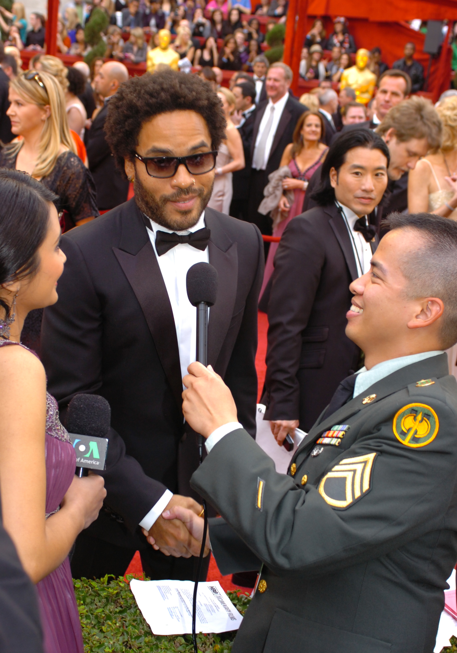 Lenny Kravitz greets Staff Sgt. Walter Talens at the 82nd Academy Awards.